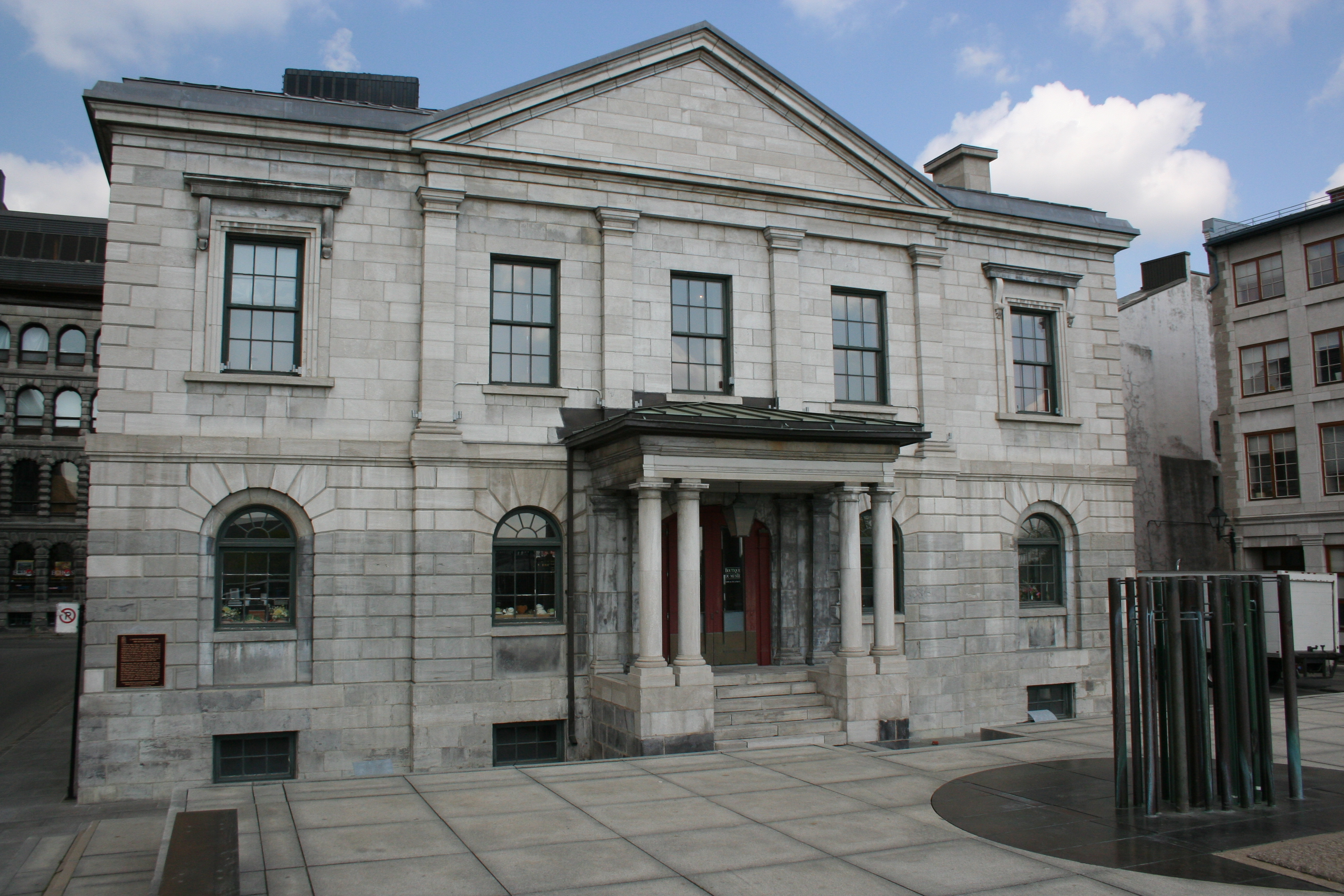 Customs House, Montreal